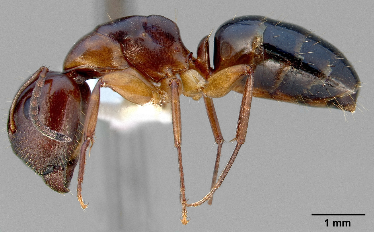 Profile view of ant Camponotus yogi specimen casent0005354.